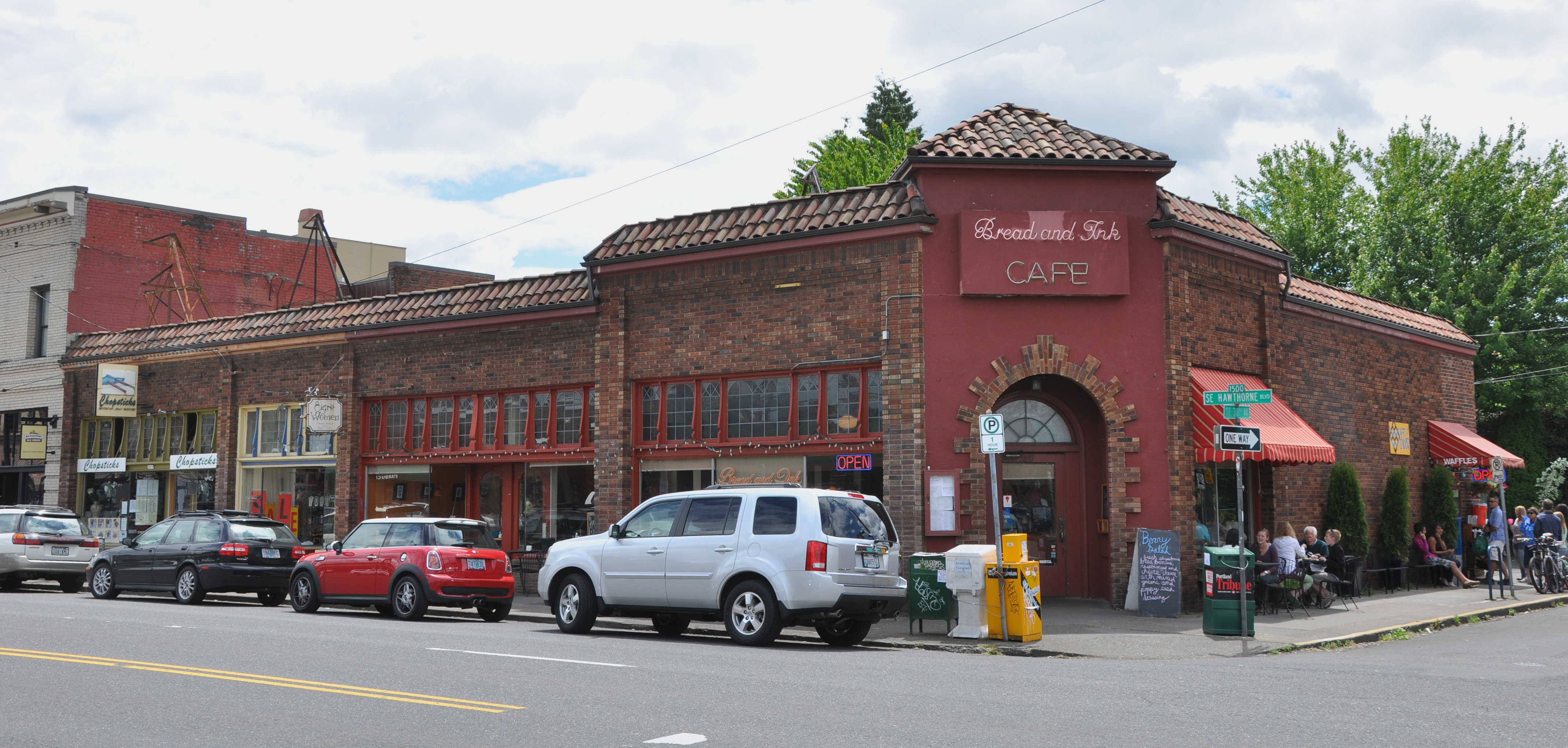 Charles Piper Building in Portland in the the U.S. state of Oregon. The structure is on the National Register of Historic Places.